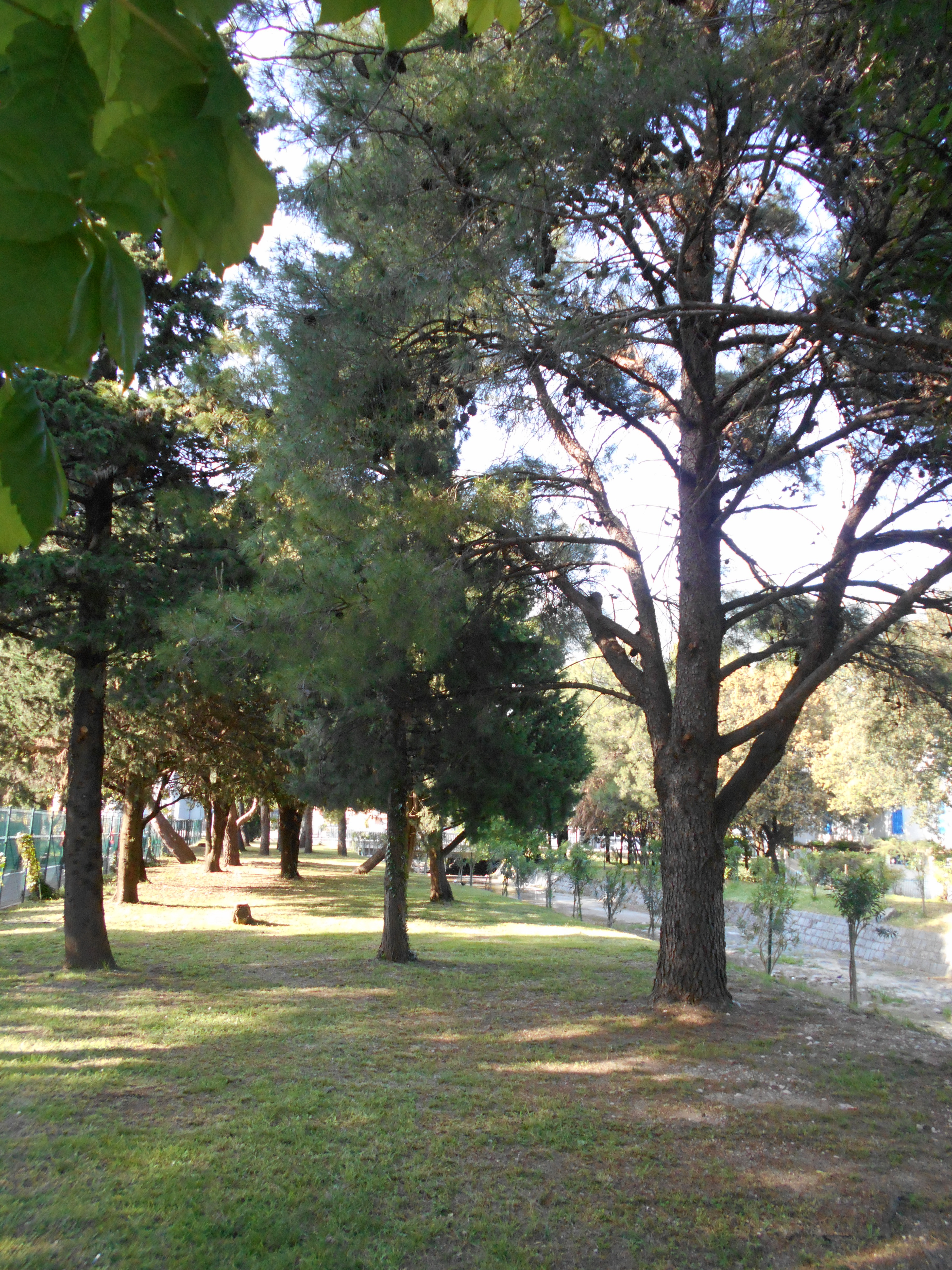 Park details in Slovenska plaža (Slavic beach) tourist resort in Budva (Montenegro)